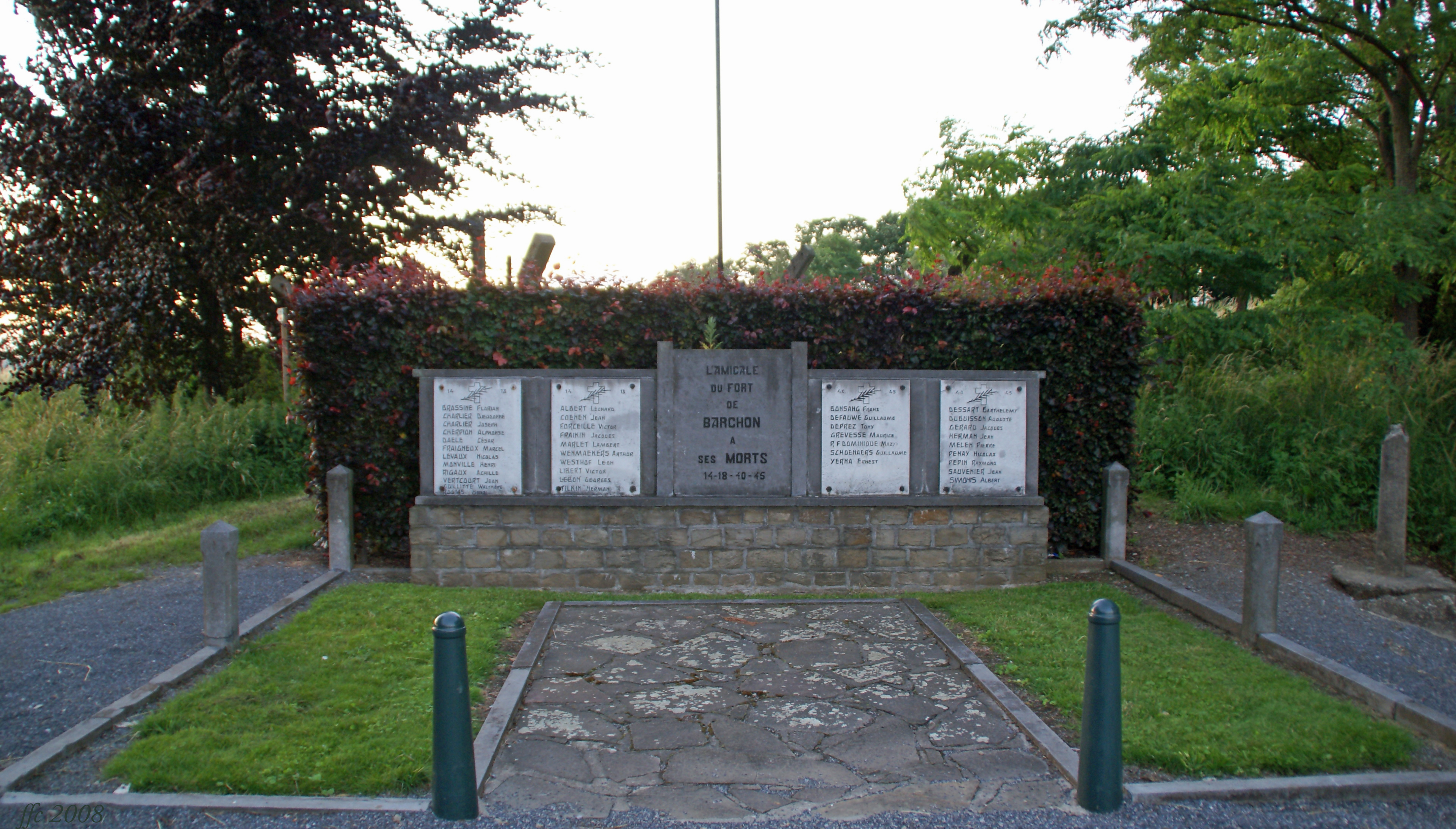 Barchon (Belgium): The fort – Memorial for the fallen in the first and second world war